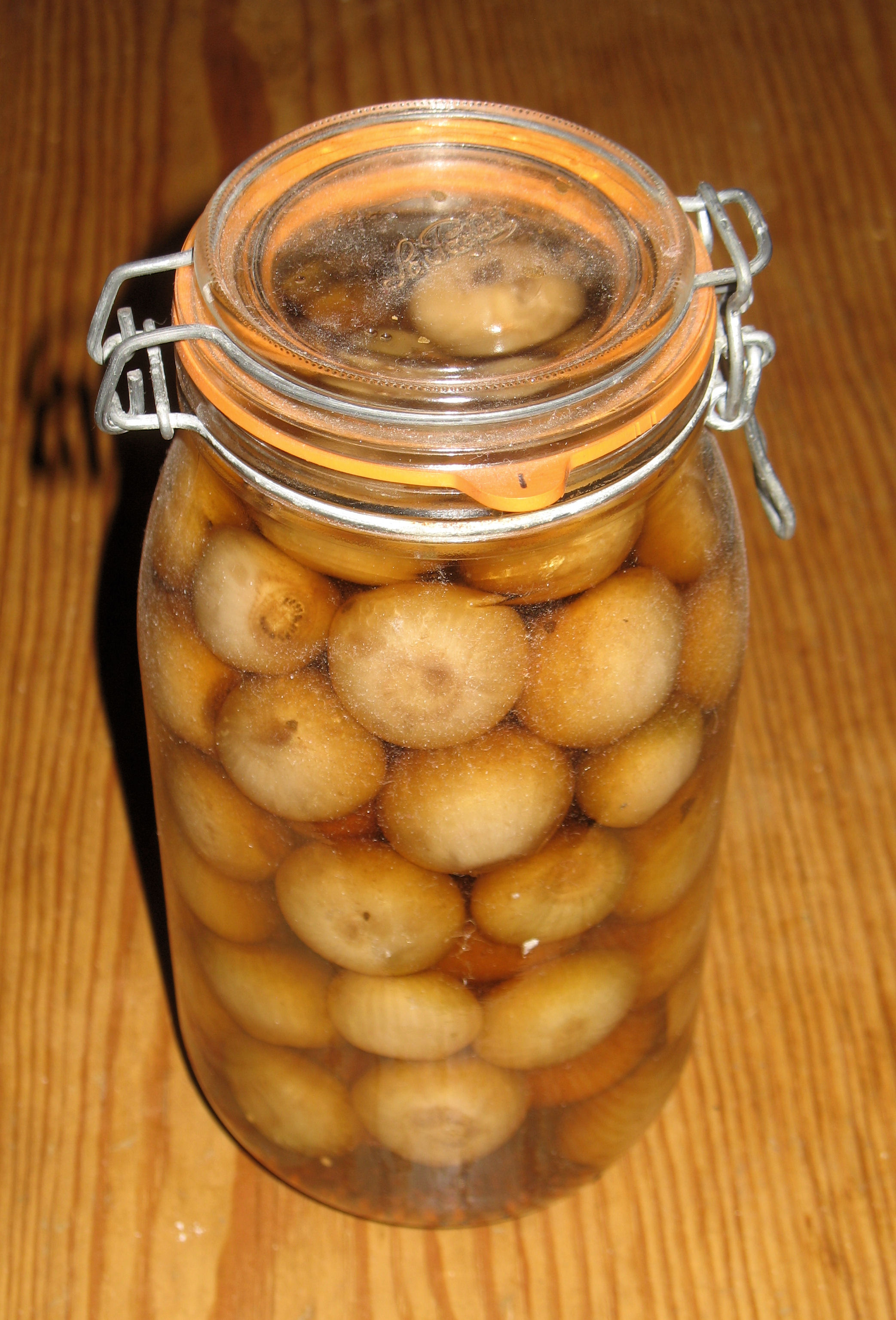 A jar of home made pickled onions in spiced malt vinegar